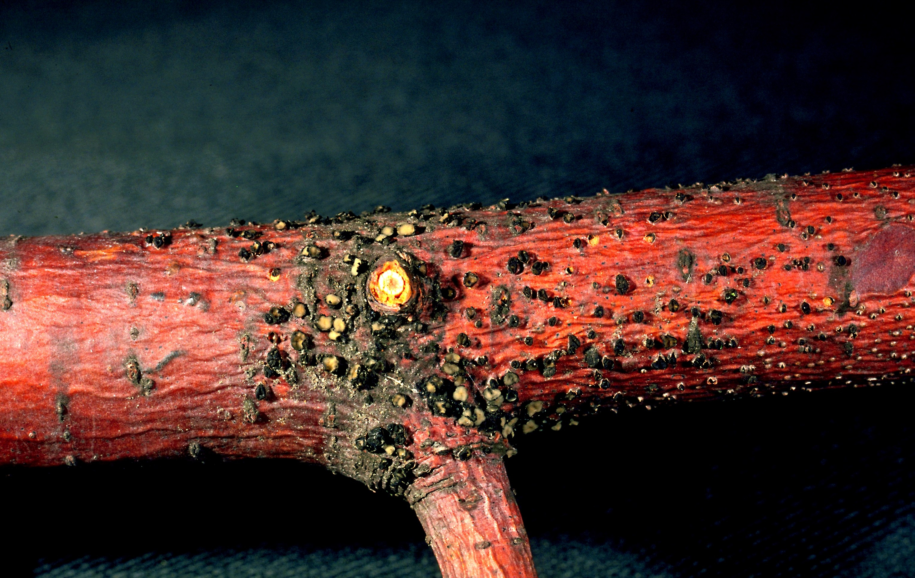 Fruiting bodies of Cenangium ferruginosum on White Pine (Pinus spp.)